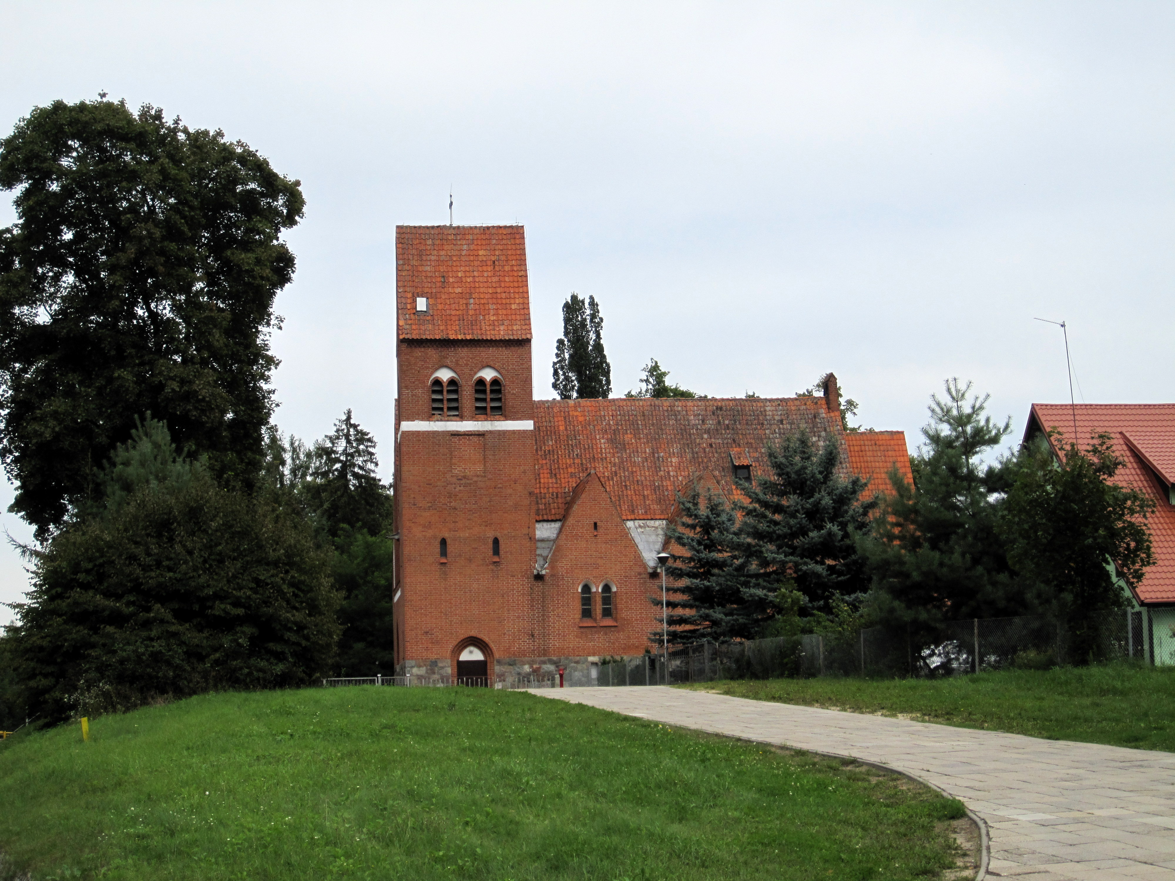 Church of Our Lady of Gietrzwałd in Kociołek Szlachecki